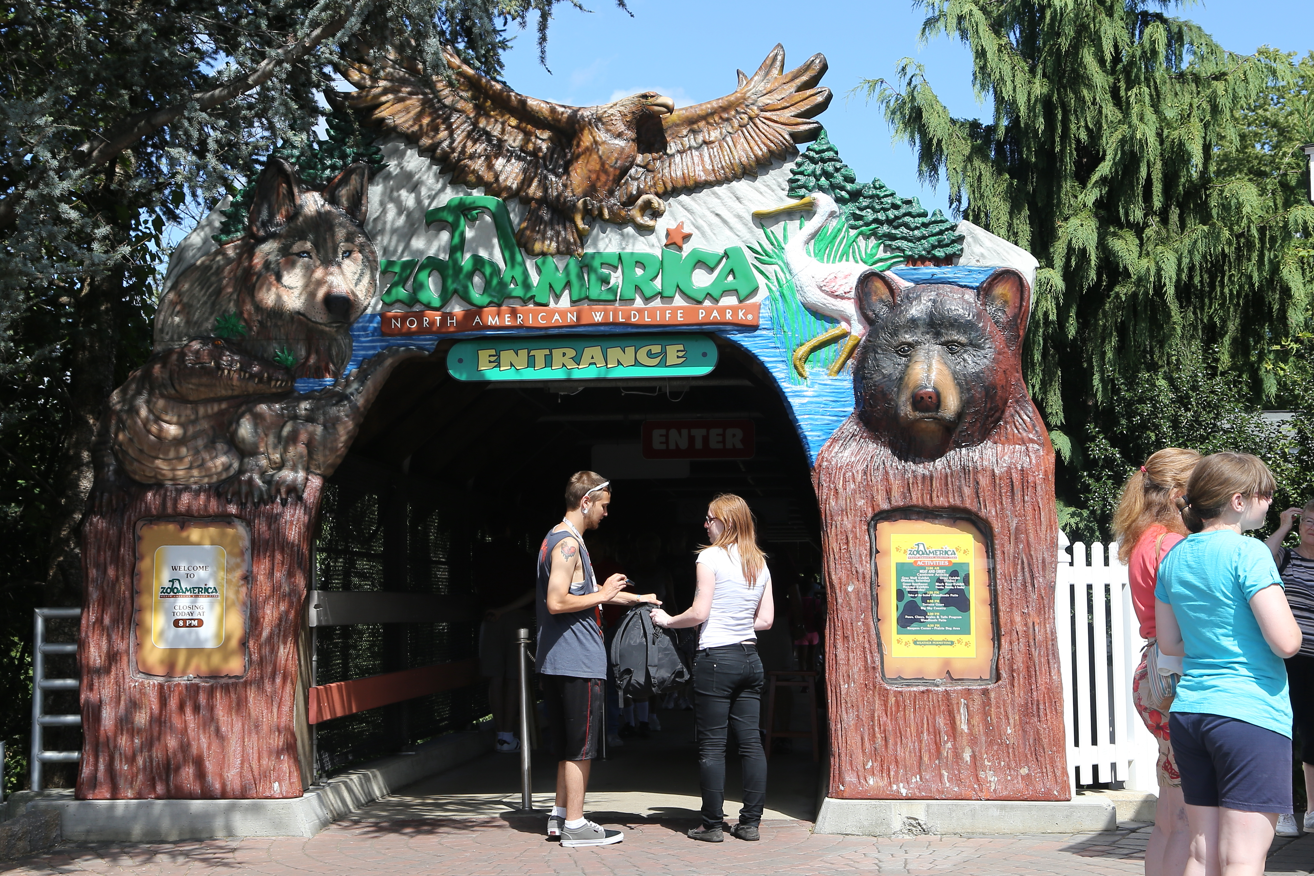 Hersheypark Hershey PA August 14, 2013